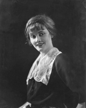 Jeanne Eagels in The Wonderful Thing (1920).